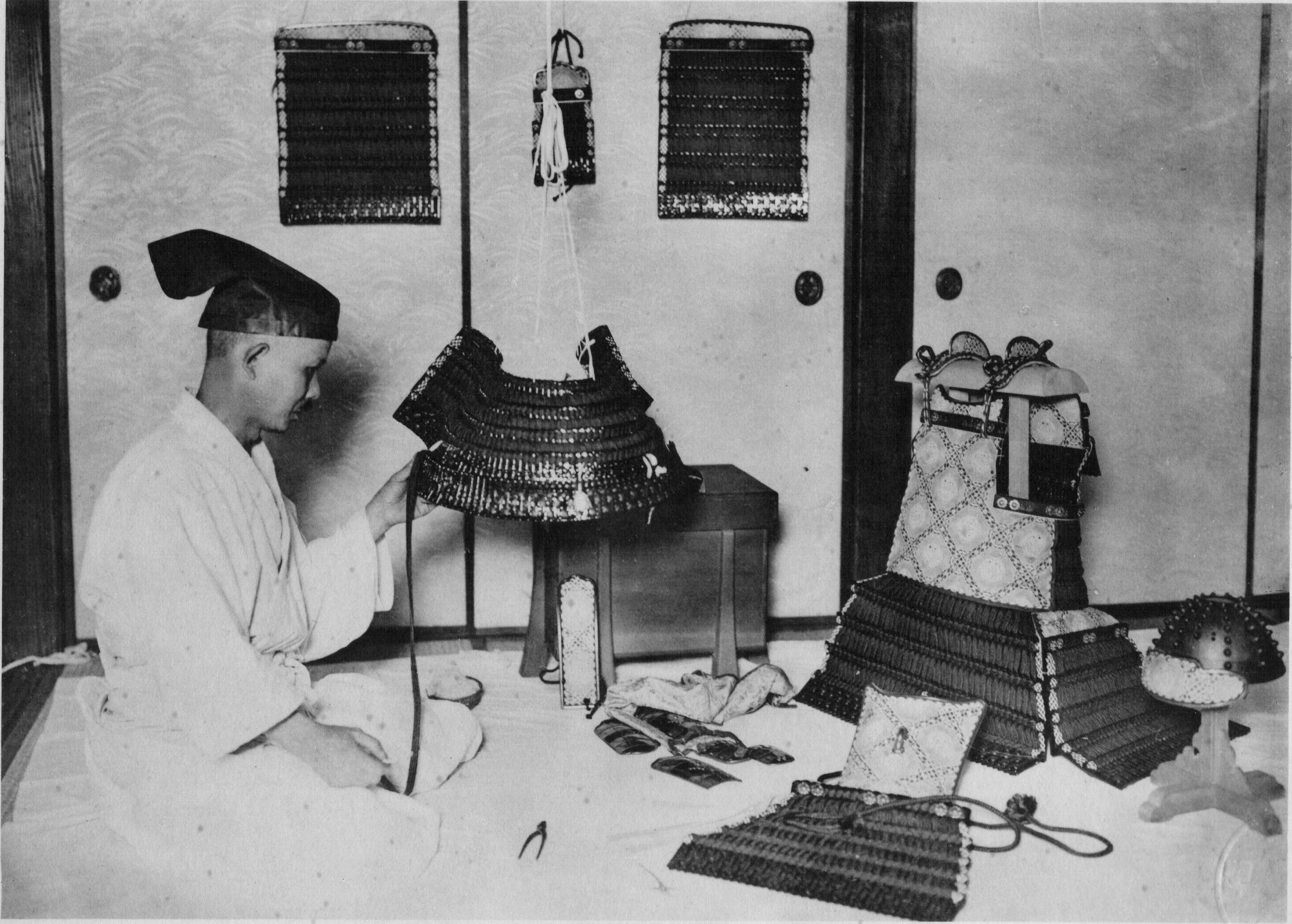 An armourer, Mitsuhiko Onoda is making a replica of Kon'ito-odoshi Ō-yoroi (Ō-yoroi laced by navy braid) at Ōyamazumi Shrine in Ehime Prefecture around 1935.